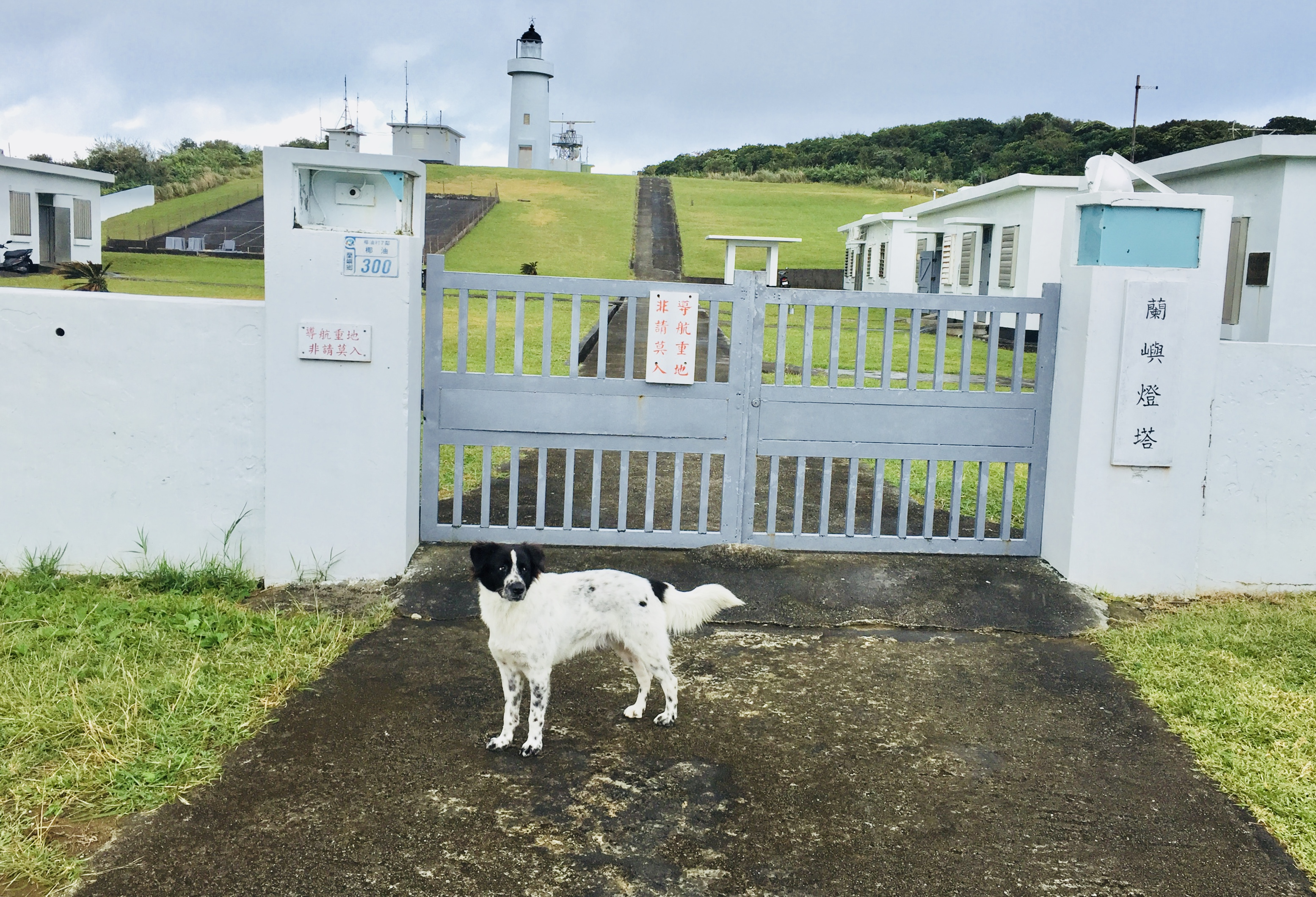 Lanyu Lighthouse entrance